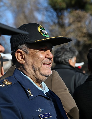 Brigadier General Habib Baghaei in Rear Admiral Dariush Zarghami funeral.